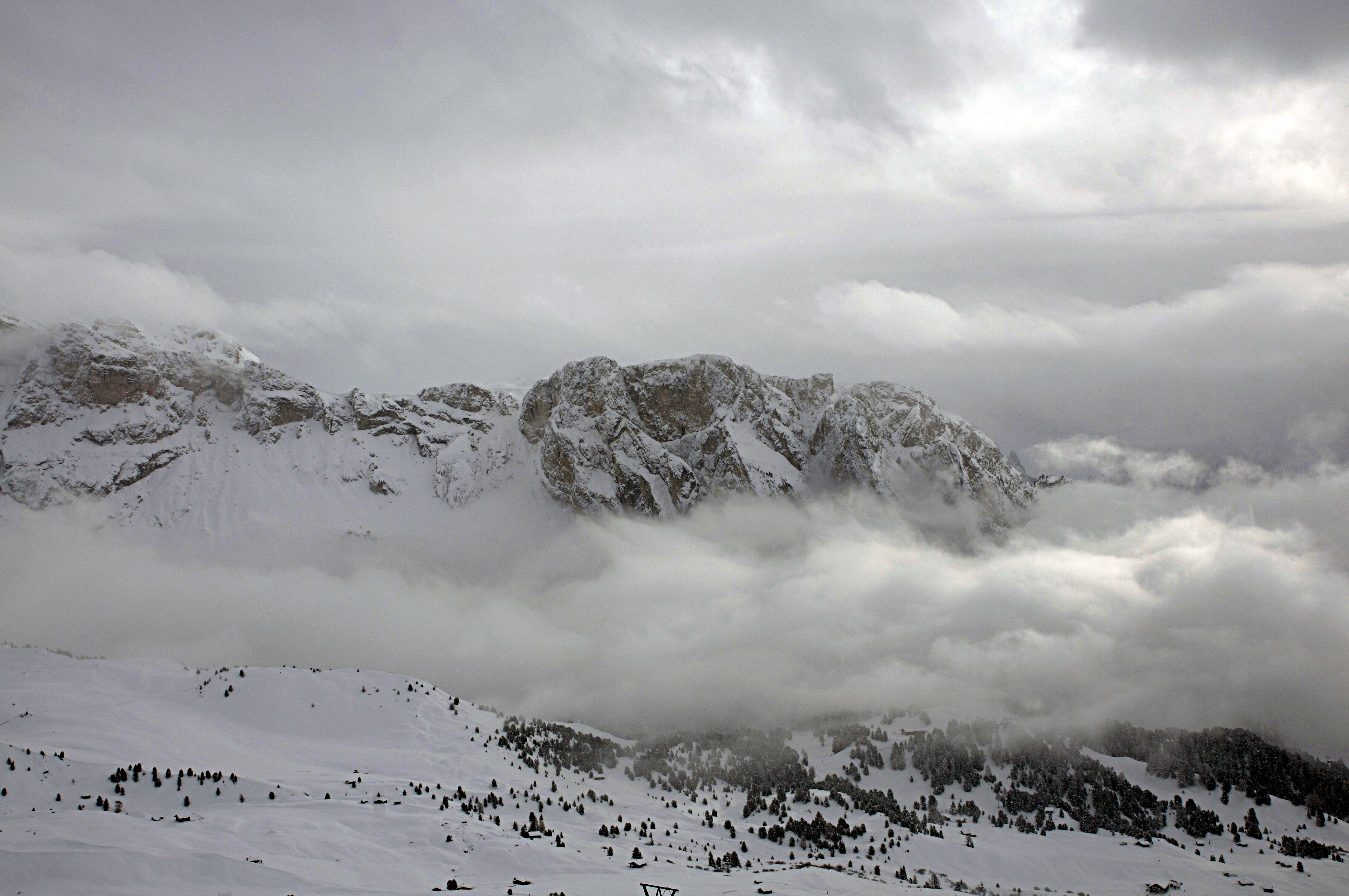 Snow on Stevia in Val Gardena